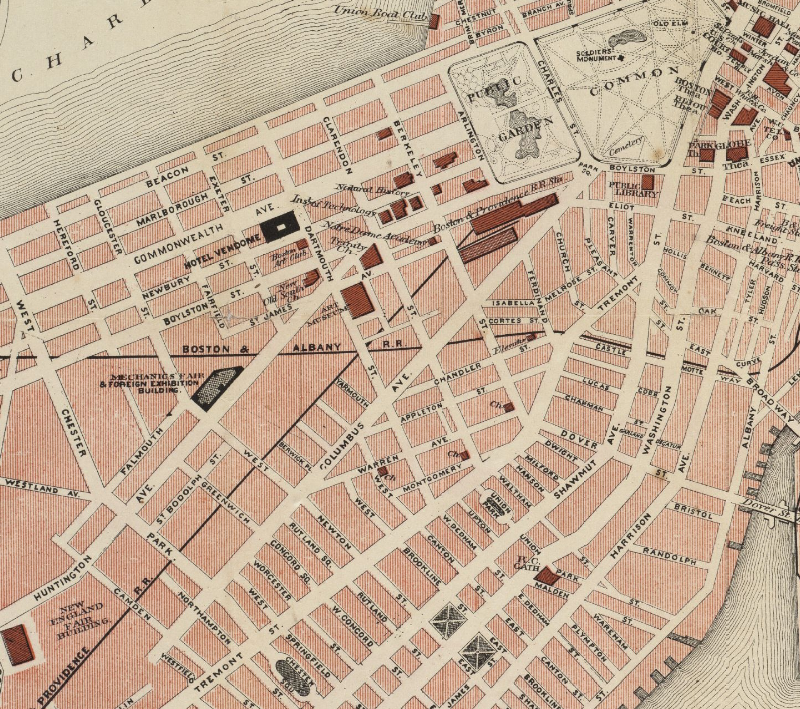 Detail of Walker's 1883 map of Boston, showing Columbus Ave. and vicinity.